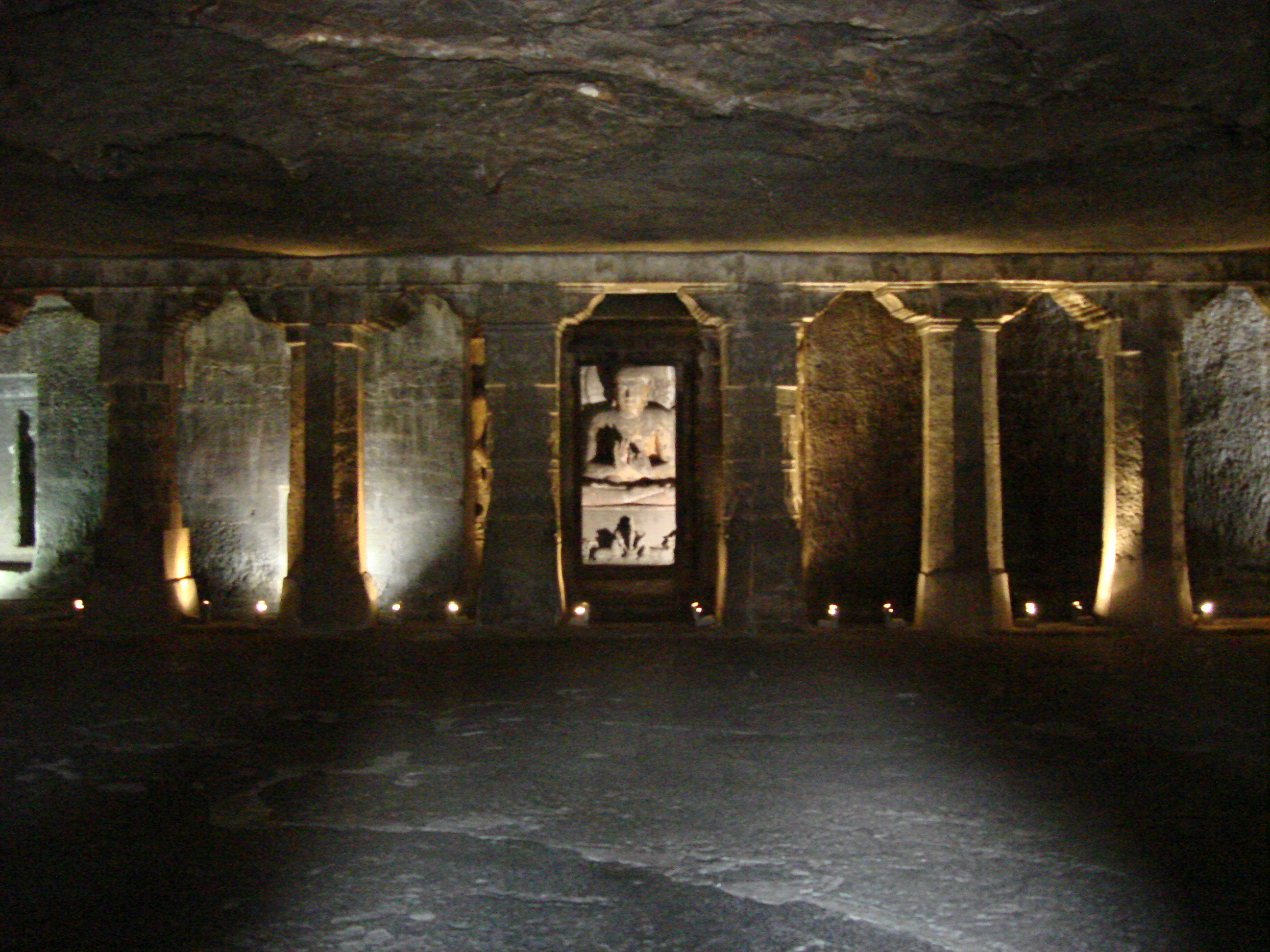 Ajanta is a renowned name in the world of architecture.Amidst a picturesque landscape of Deccan basalt,101 km north of Aurangabad in Maharashtra,there occurs a small hamlet-Ajanta.It has 30 Buddhist rock-cut caves,unique sculptures,carvings and mural paintings. The Ajanta caves possess an invaluable treasure of Indian art which imbibes inspiration in the art-loving people of all generations.The facades of the Chaitya halls show intense ornamentation and carvings.Rocks were hewn out to make figures of classic qualities.The entire course of the evolution of Buddhist architecture can be traced in Ajanta.During this time,images of Buddha on his different life stories and several types of human and animal figures were carved out of in-situ rock.All sections of people of the contemporary society from kings to slaves,woman,man and children are seen in the Ajanta murals interwoven with flowers,plants,fruits,birds and beasts.There are also the figures of Yakshas,Kinnas(half human and half bird),Gandharvas(divine musicians),Apsaras(heavenly dancers)which were of concern to the people of that time.One thousand years of neglect,and exposure to the hostile elements of nature have damaged many of the beautiful works of the past but those which have survived in caves 1,2,16 and 17 can be ranked high among the greatest artistic works of the contemporary world. The Ajanta caves are excavated in a semicircular scarp of 75 m height overlooking a meandering stream,Waghora that descends as a steep ravine with seven leaps.The caves have a horse-shoe pattern of arrangement covering a stretch of 550 m.Their floor levels are not uniform and they have got no symmetry in their subsurface distribution probably due to their excavation in different times.The individual caves were earlier isolated but are now connected by steps [